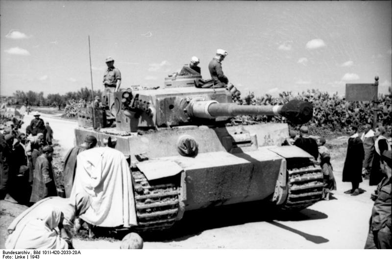 Information added by Wikimedia users.Schwere Panzer-Abteilung 504 (Size and style of number on turret, located in Tunisia)[1]